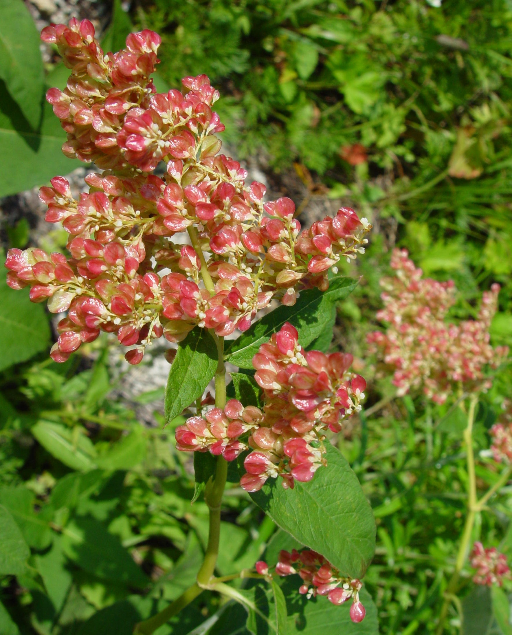 Aconogonon weyrichii var. alpinum in Mount Tsubakuro, Nagano prefecture, Japan.